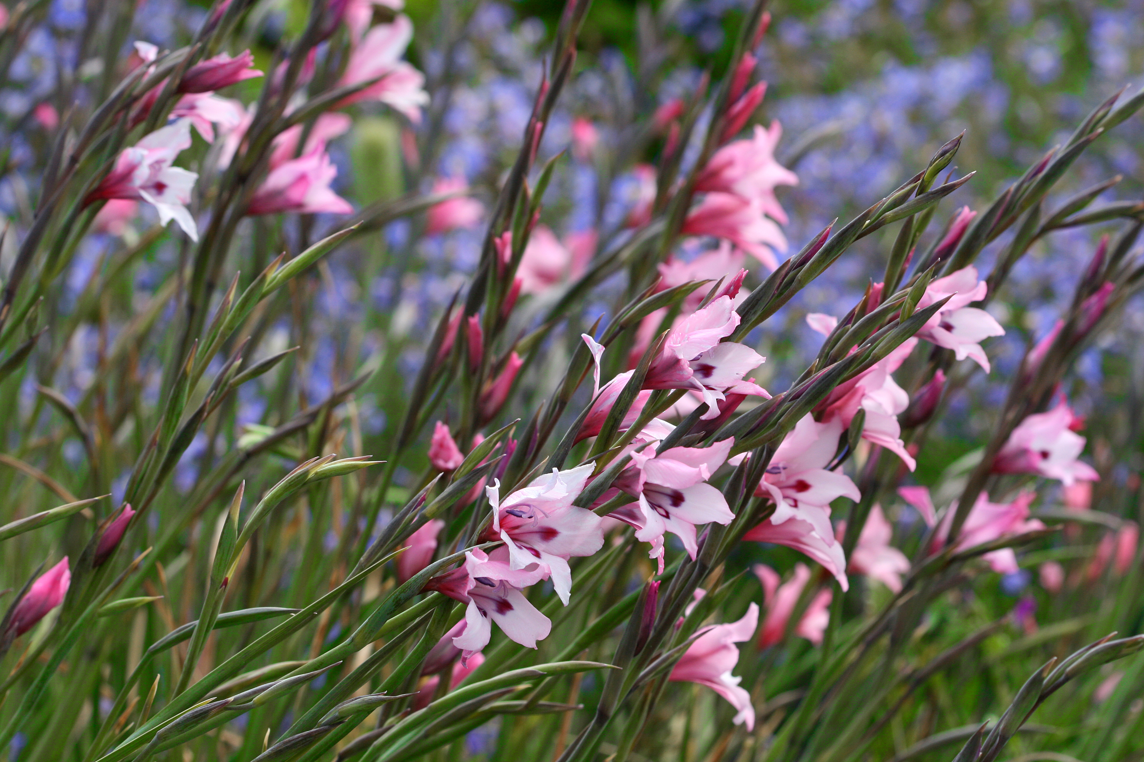 Wonderful floriferous South African bulb. 15" tall , scented and not funereal. Deciduous in Summer . Increases by creating more bulbs each year.